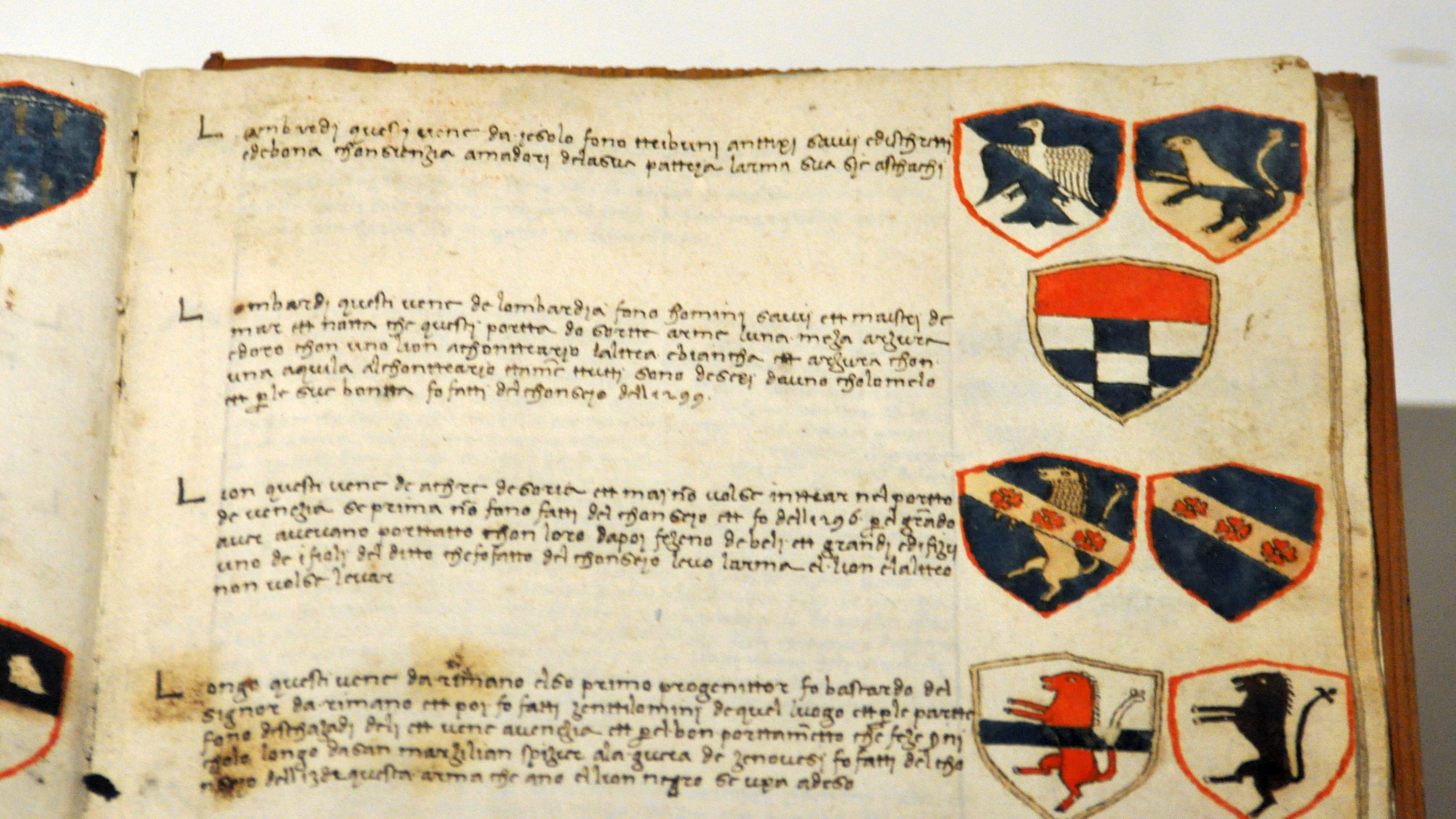 Page of a manuscript book that lists the origins and coats of arms of noble Venetian families. Are shown the families Lambredi, Lombardi, Lion and Longo. Last quarter of the 15th century. Museo Archeologico Nazionale in Venice, Italy.